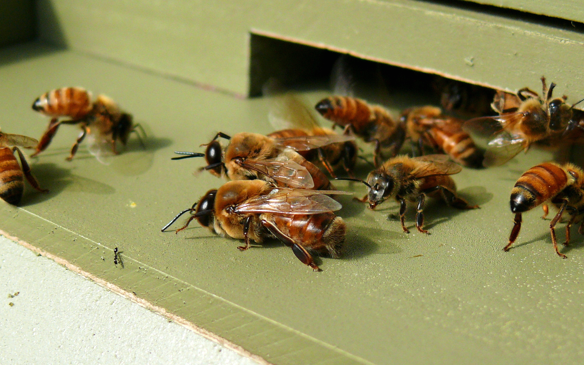 Two Italian honeybee (Apis mellifera ligustica) drones surrounded by worker bees at the hive entrance. Drones are the only males in a honeybee colony, and are easily distinguished by their large size, slightly darker coloration, prominent eyes, and blunt abdomen. Photo taken with a Panasonic Lumix DMC-FZ50 in Caldwell County, NC, USA.